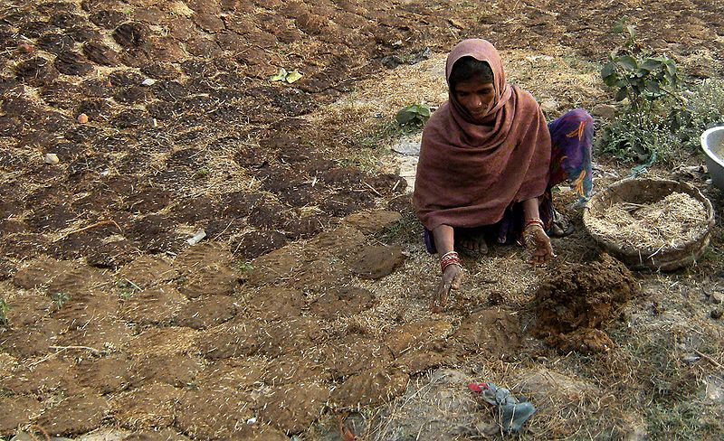 Women at work in Bihar Female farmers in India Dry animal dung fuel in India